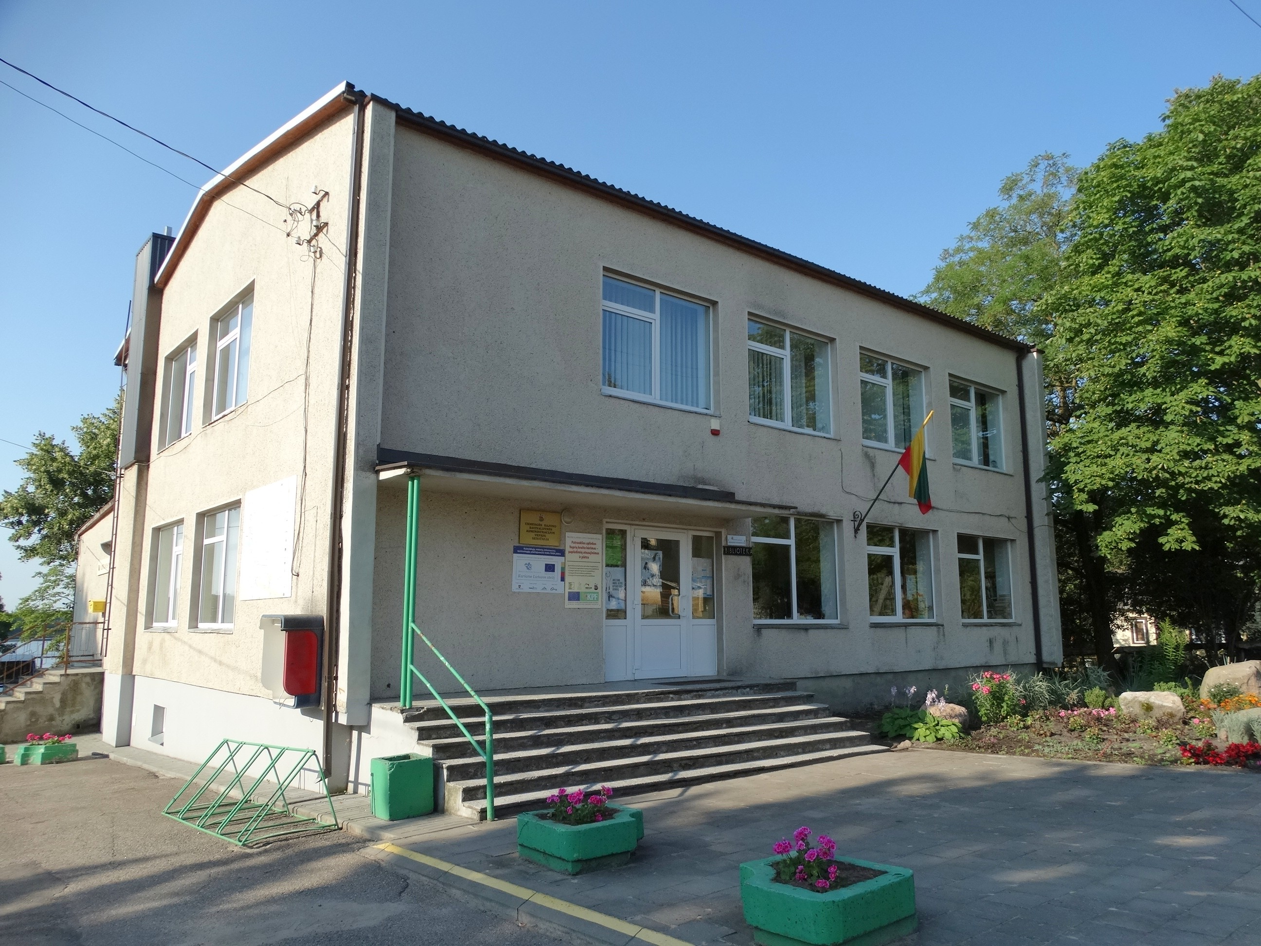 Eldership in Vepriai, Ukmergė district, Lithuania